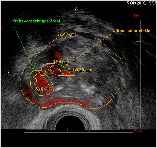 HistoScanning image